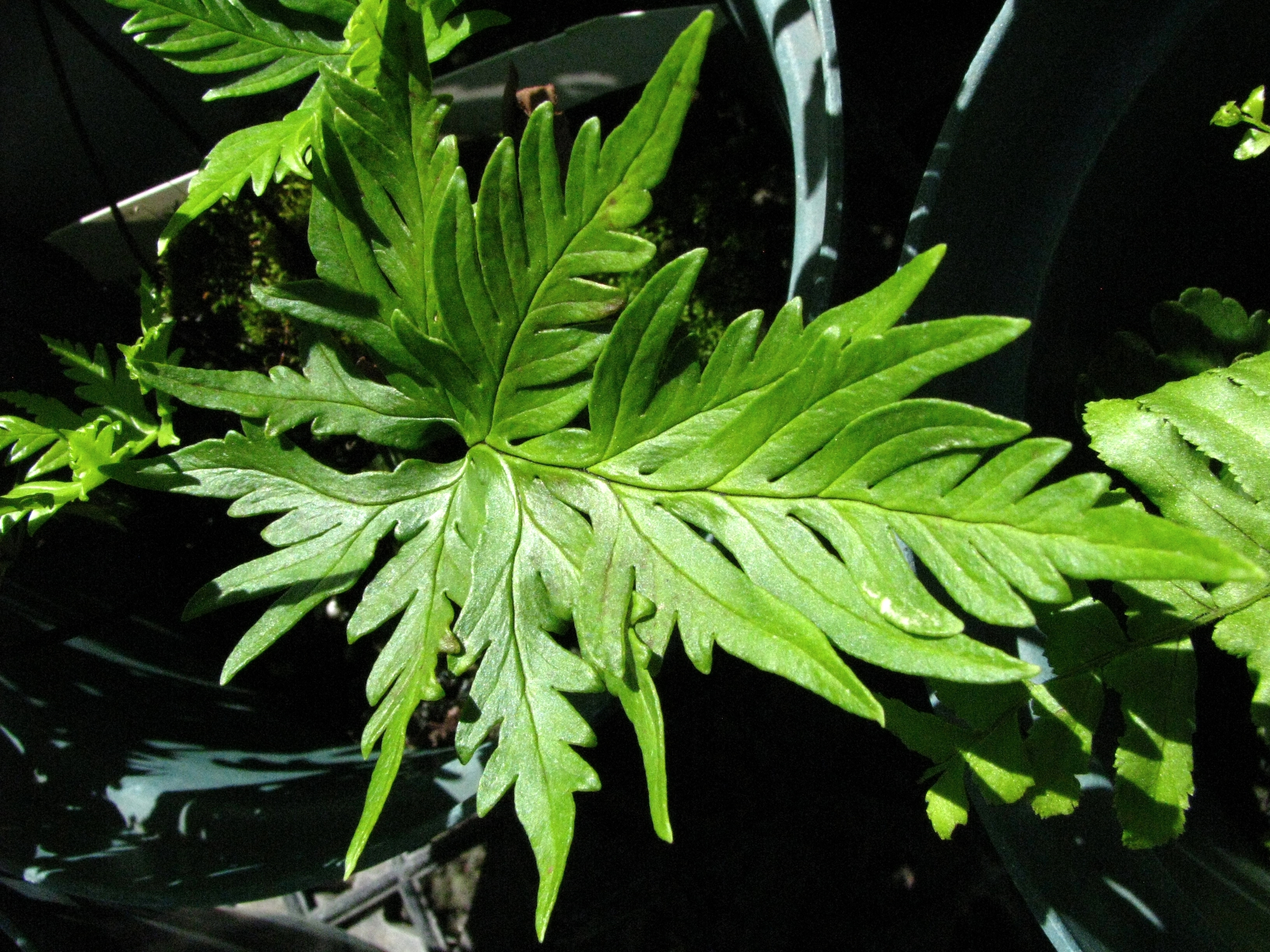 Kauaʻi digit fern Pteridaceae Endemic the the Hawaiian Islands (Kauaʻi only) IUCN: Critically Enangered Kauaʻi (Cultivated) Underside showing sori